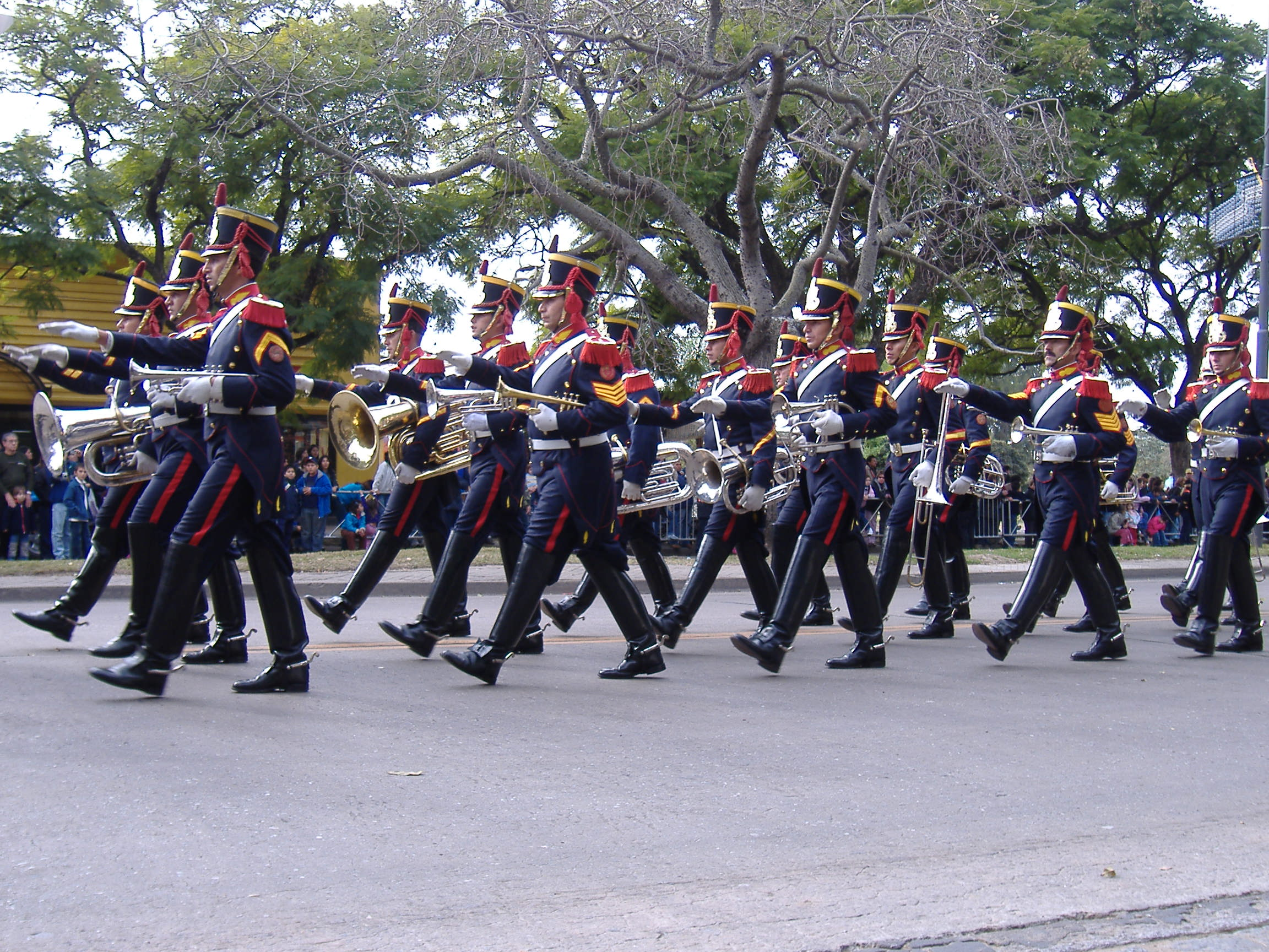 Members of the traditional Granaderos Regiment during the civic parade of Flag Day (20 June) 2006, in Rosario, Argentina